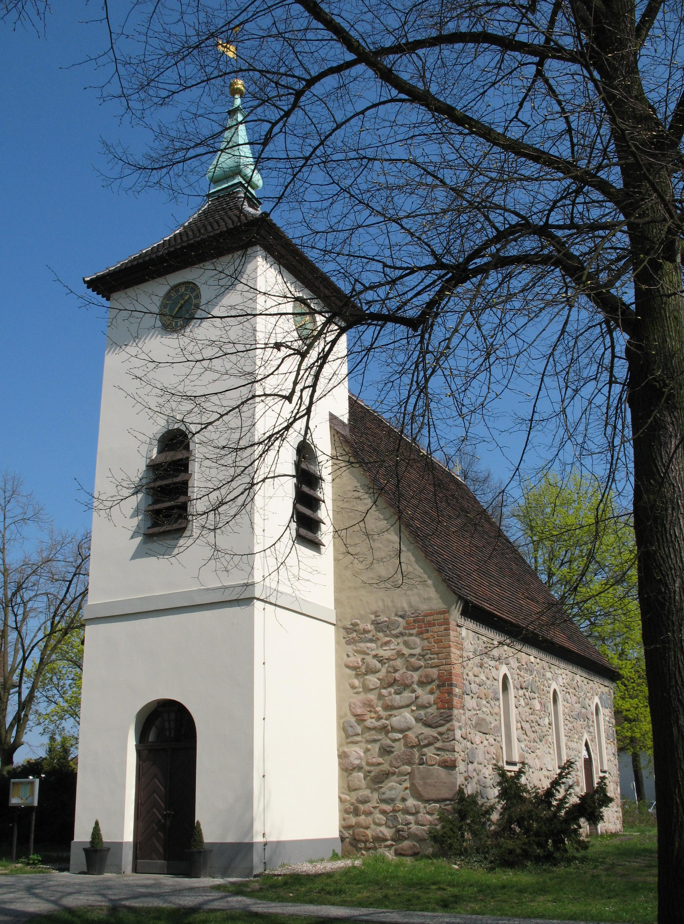 Church in Berlin-Reinickendorf, Germany